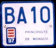 rear plate Monaco for motocycle